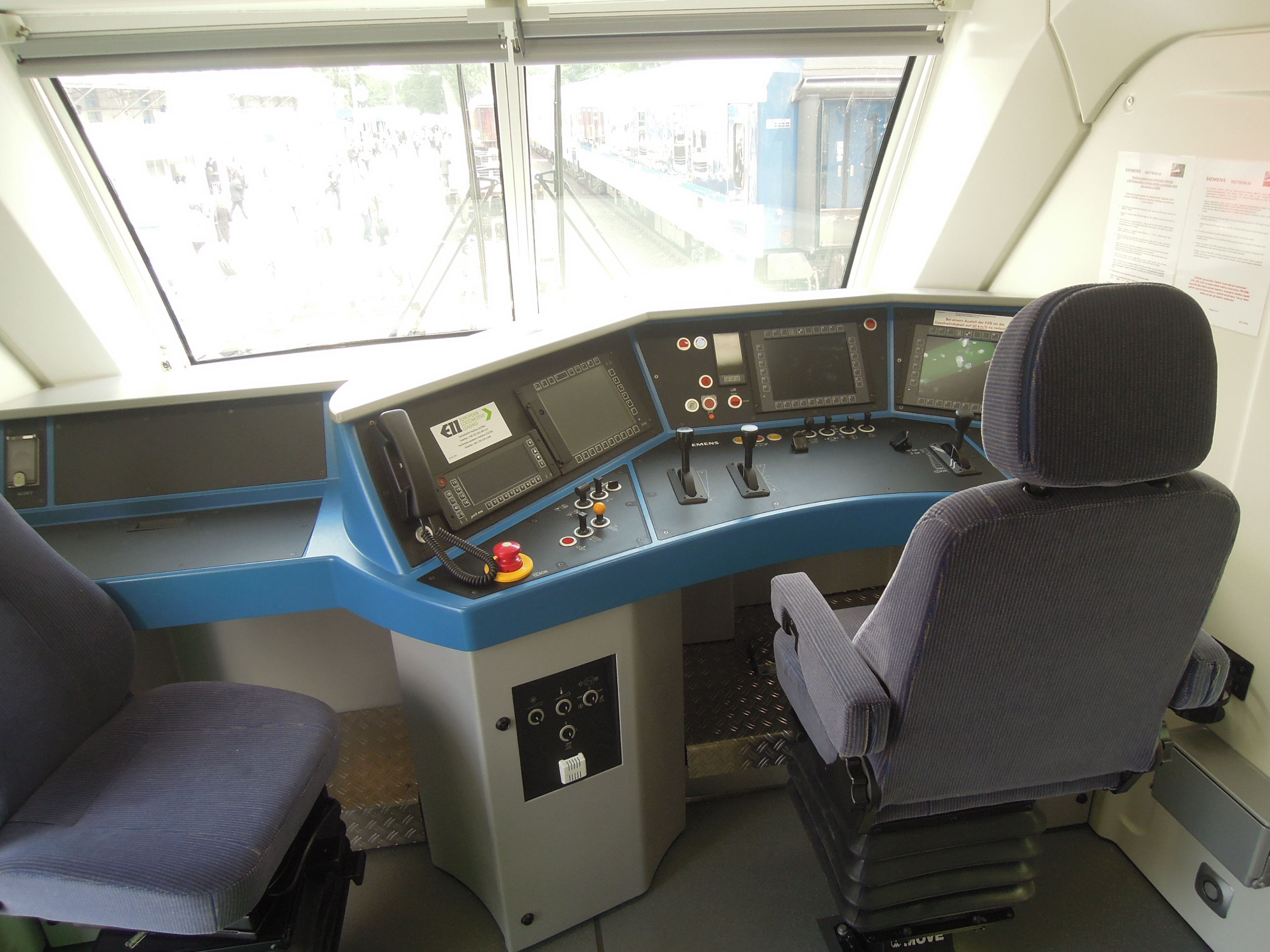 Electric locomotive Siemens Vectron at the Czech Raildays 2015 trade fair in Ostrava, Czech Republic